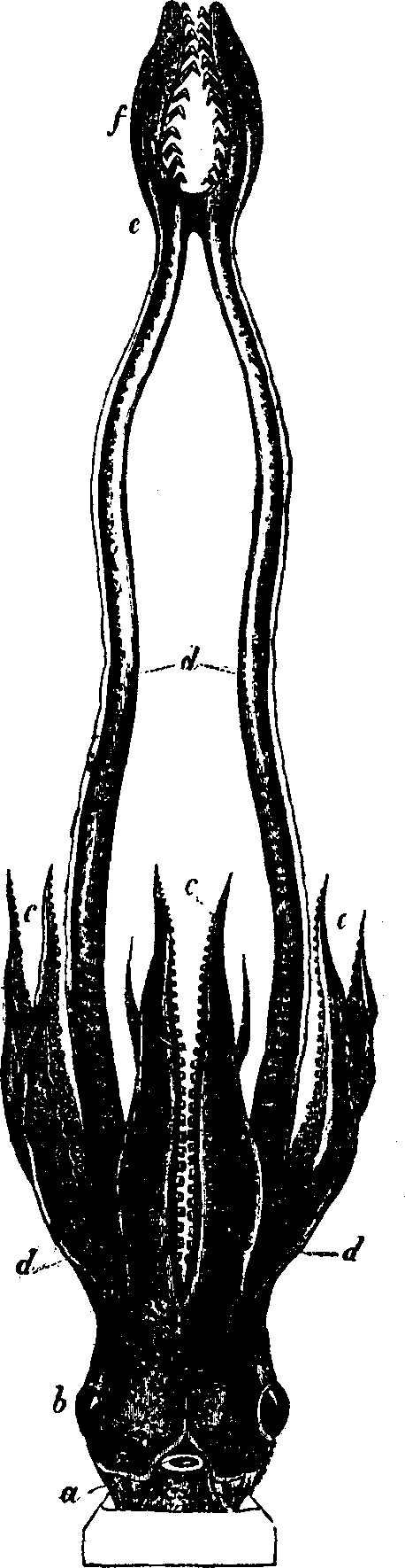 Head of Onychoteuthis Head and circum-oral processes of the fore-foot of Onychoteuthis (from Owen). a, Neck. b, Eye. c, The eight short arms. d, Long prehensile arms, the clavate extremities of which are provided with suckers at e, and with a double row of hooks beyond at f. The temporary conjunction of the arms by means of the suckers enables them to act in combination.